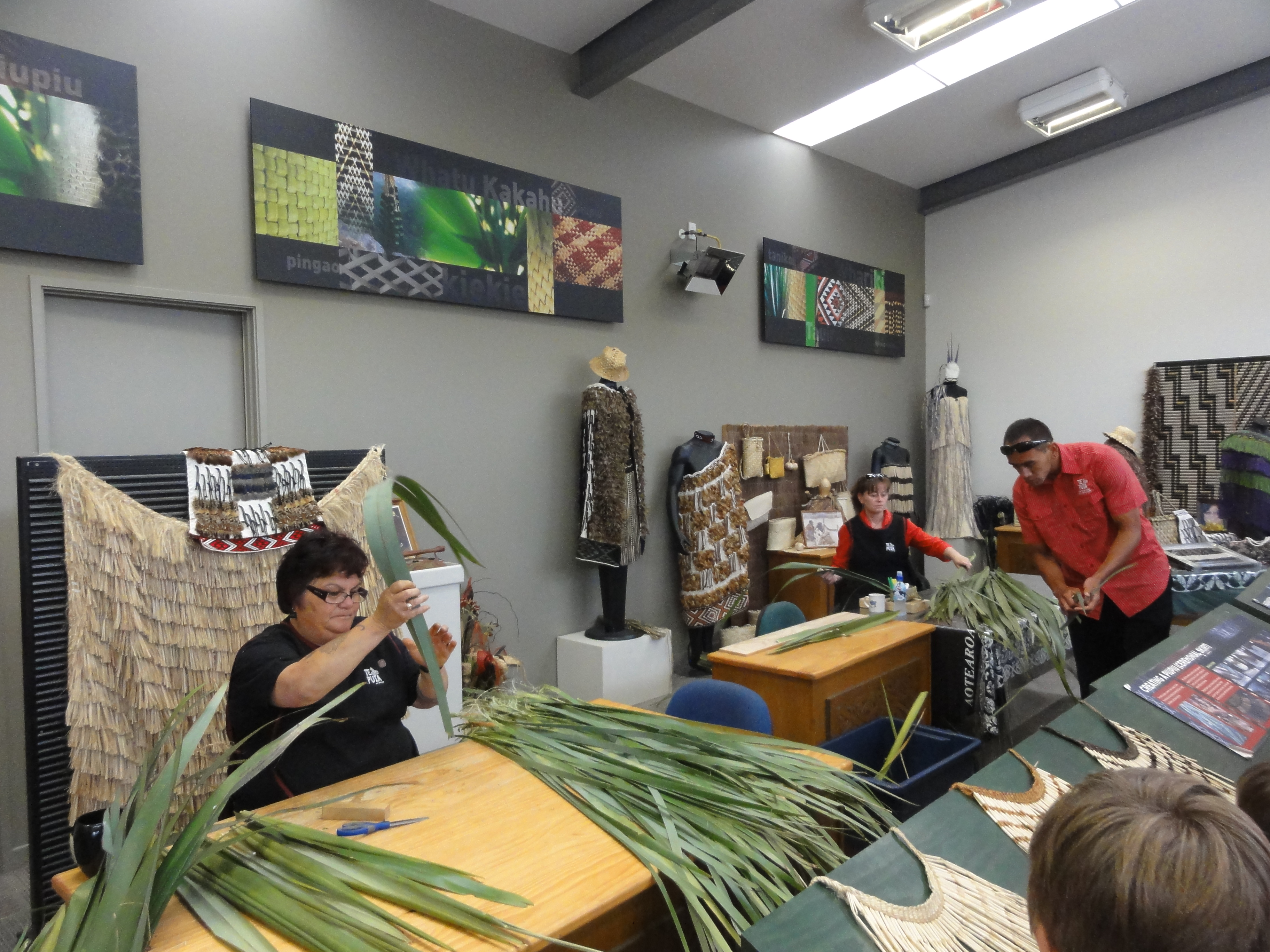 maori weaving school at Whakarewarewa, Rotorua, New Zealand